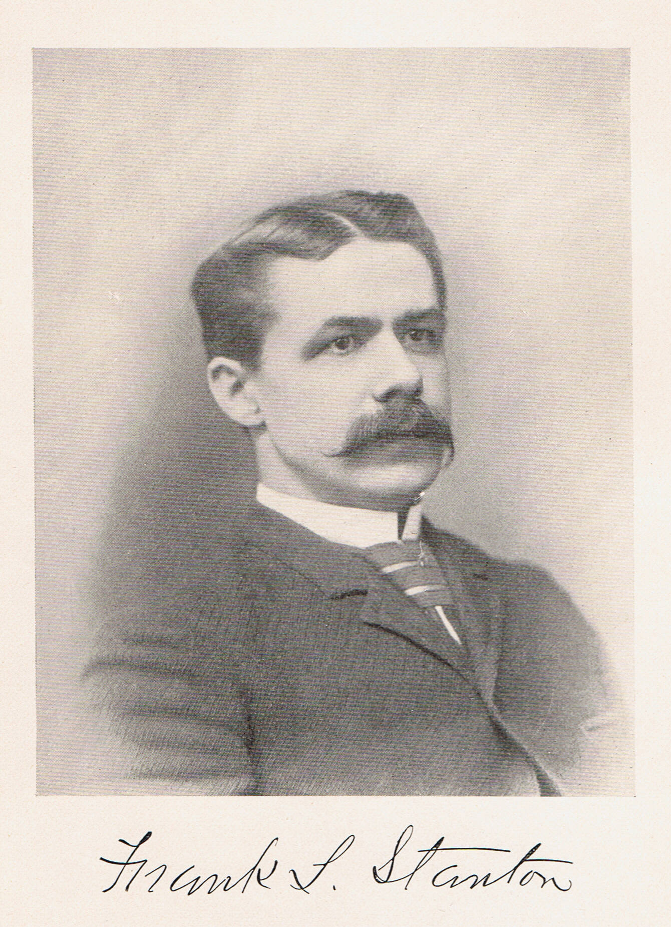 Portrait of Frank L. Stanton.